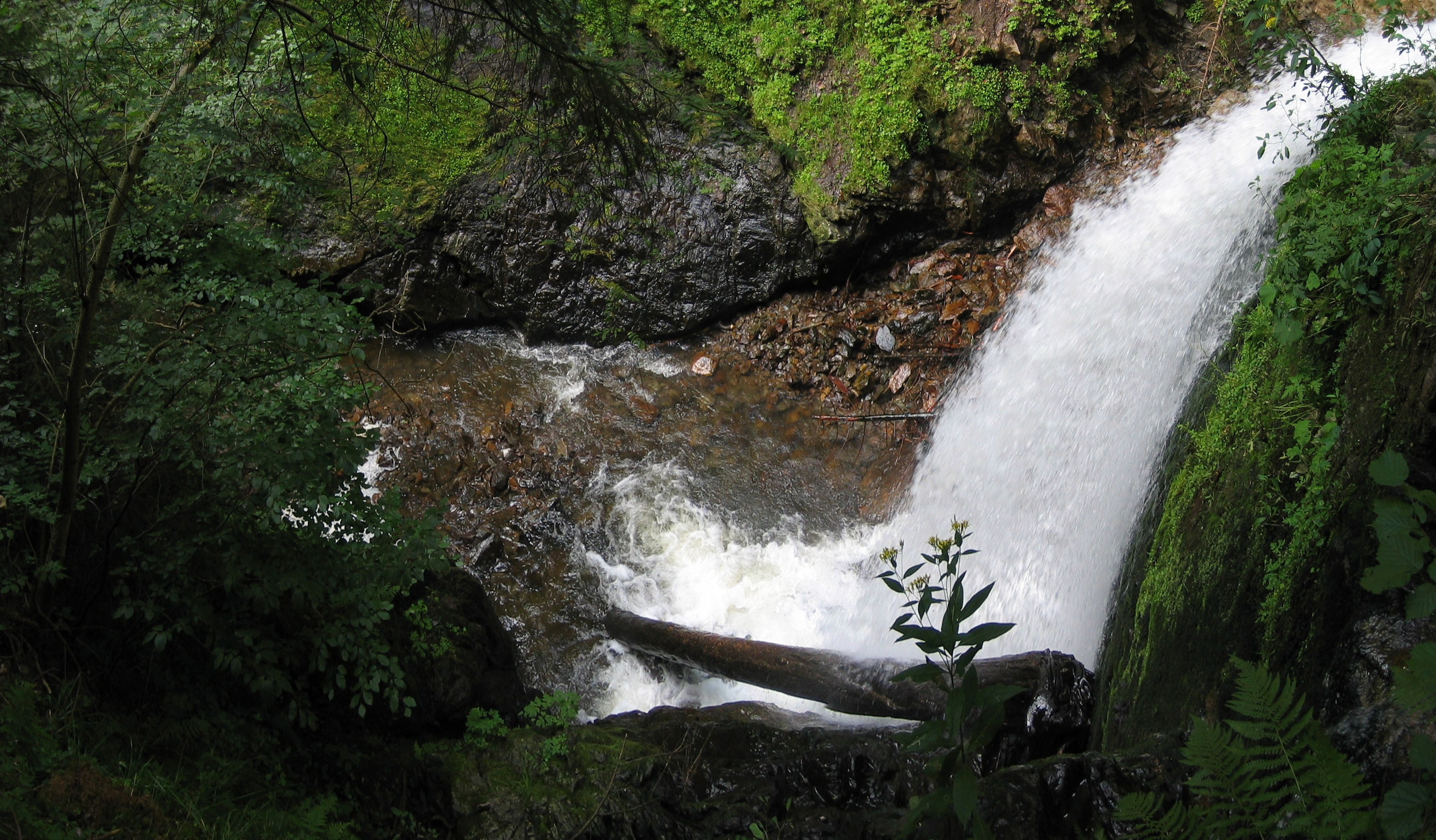 Waterfall in the Ravennaschlucht / Black Forest / Germany